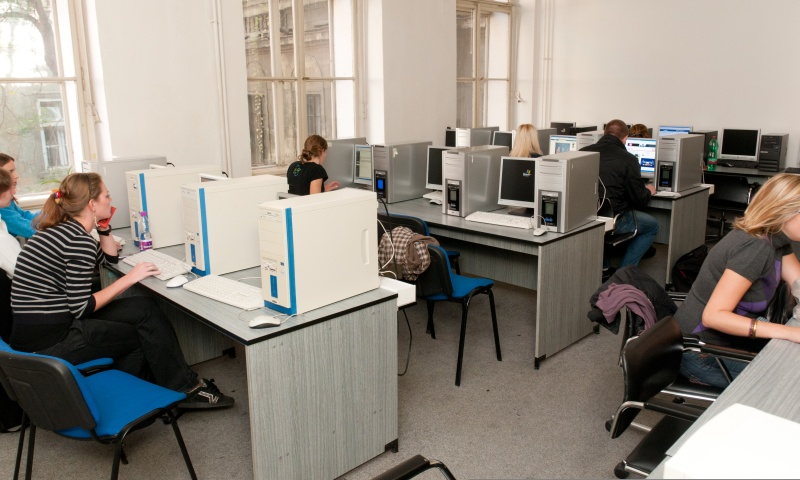 One of computer rooms at College of Media and Journalism in Prague, Czech republic.